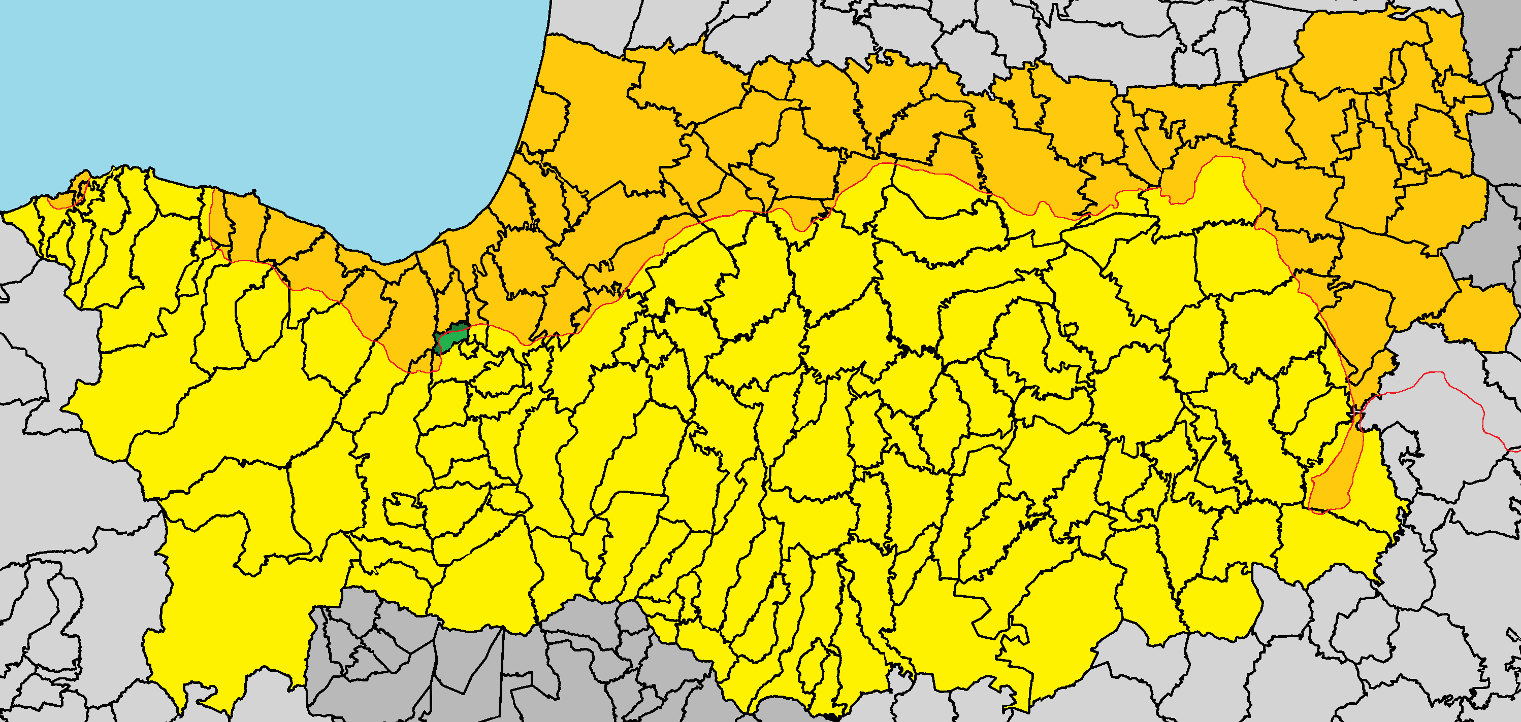 Agios Nikolaos Lefkas in Nicosia District (de jure).